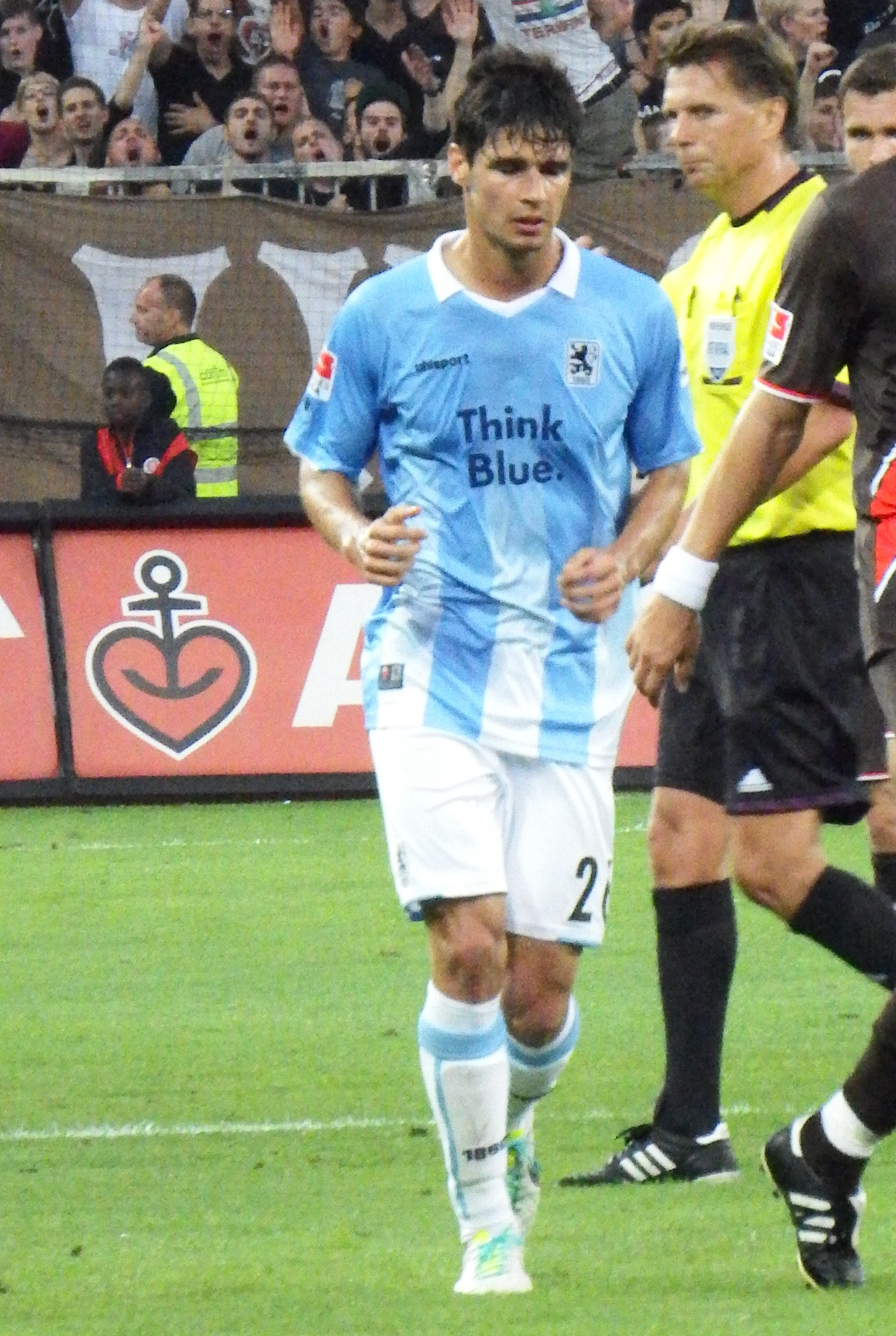 Christopher Schindler as Player of TSV 1860 München